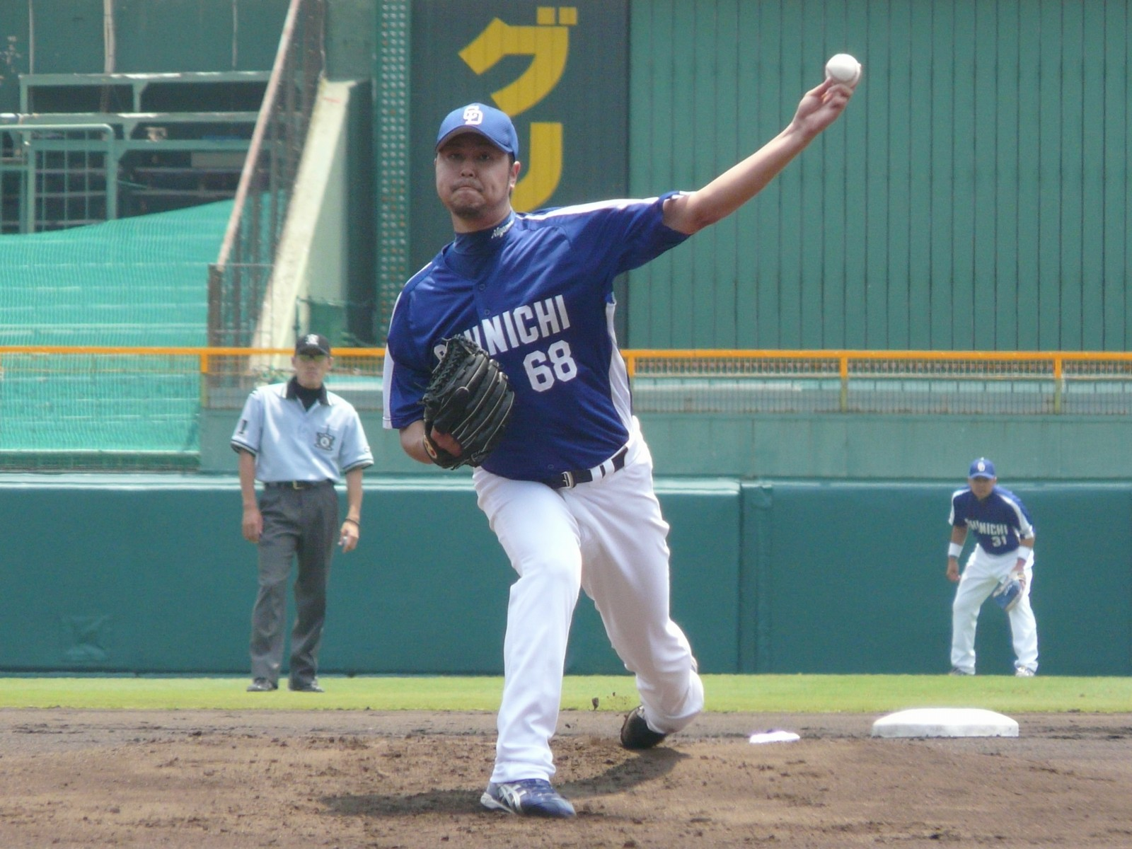 Copied from 画像:CD-Syouji-Nagamine.jpg: "長峰昌司"